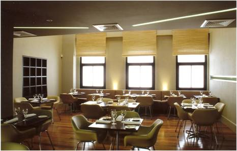 This is a function room that can be hired out for all sorts of special occasions.